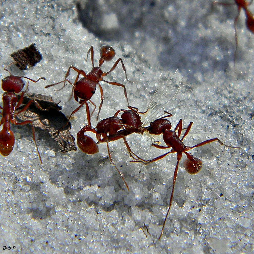 These Florida harvester ant minor workers have found a tasty and nutritious seed to add to their granary and are working together to trim the pappus bristles off for better transport & storage. I once saw them try to take a large sandspur (Cenchrus incertus) seed into the opening of their colony, even though it was too tough to trim and would not fit. After many tries they discarded it. The seed in this photo will fit nicely. If you visit these fascinating creatures, know that they are not aggressive and usually quite amiable but they do have an extremely potent & long lasting sting...so stay on their good side!